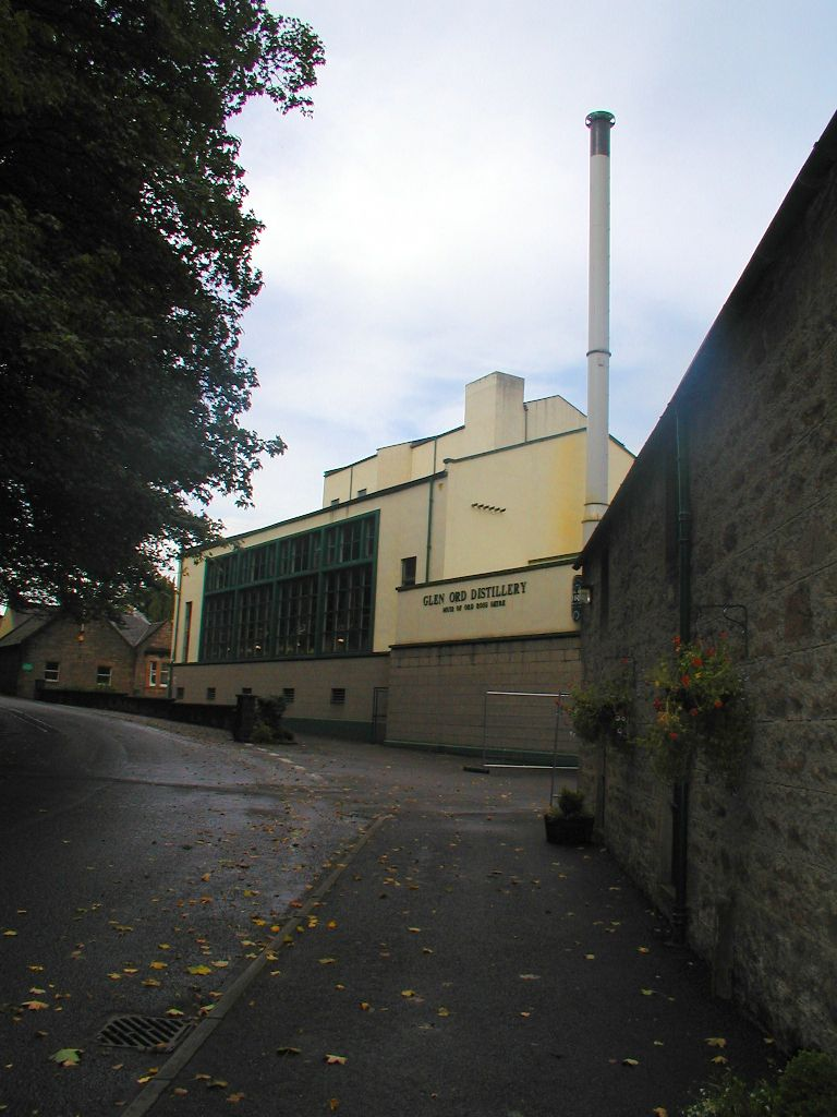 P. Brandon Malloy Personal Photo